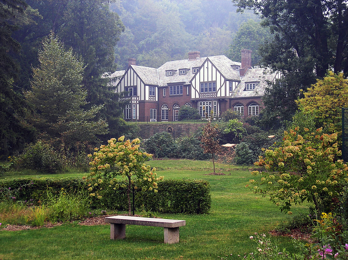 Lynch Hall at the University of Pittsburgh at Greensburg, photo by Michael G. White